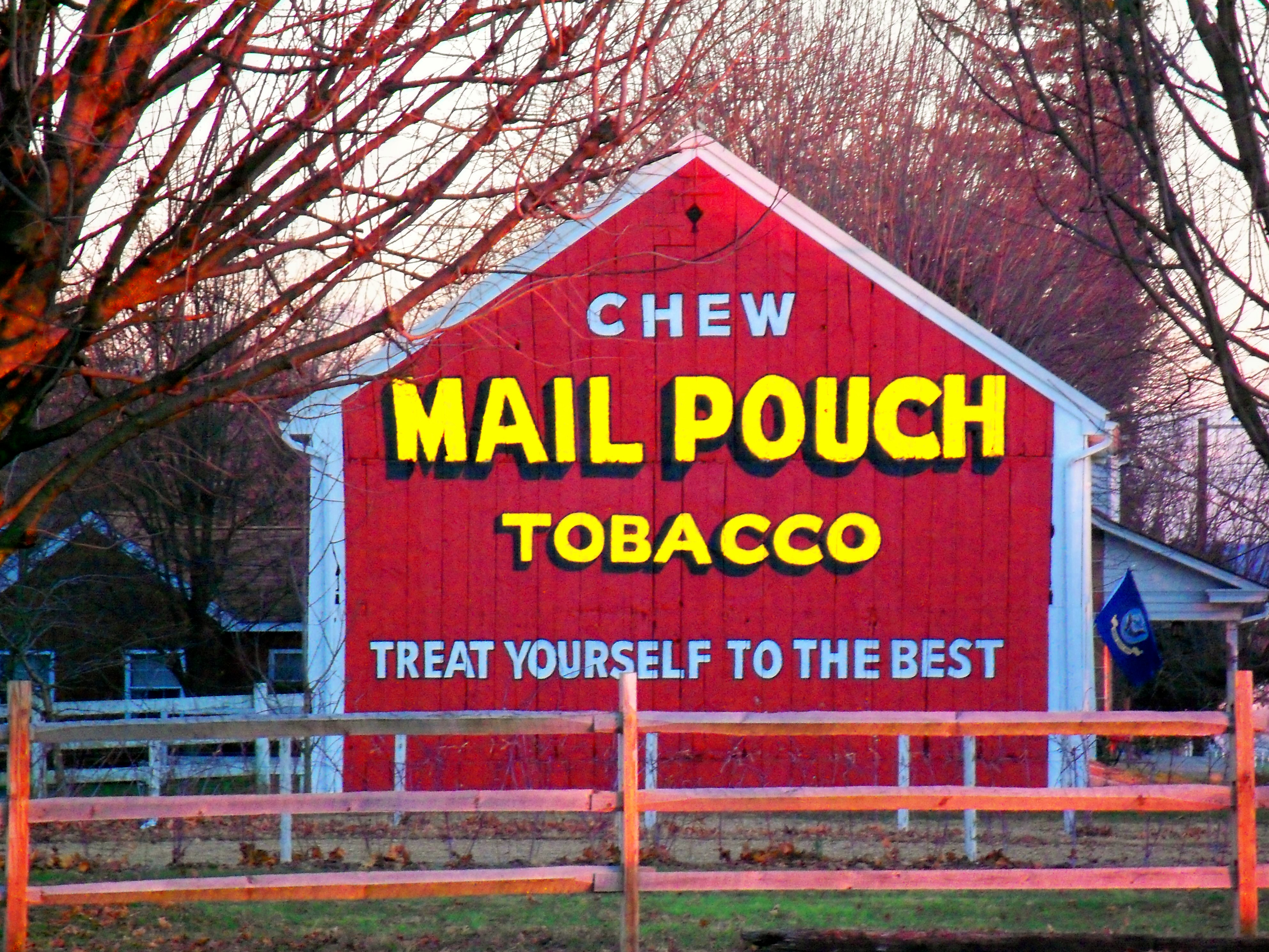 Photographed near Brickerville, Lancaster County, PA, USA